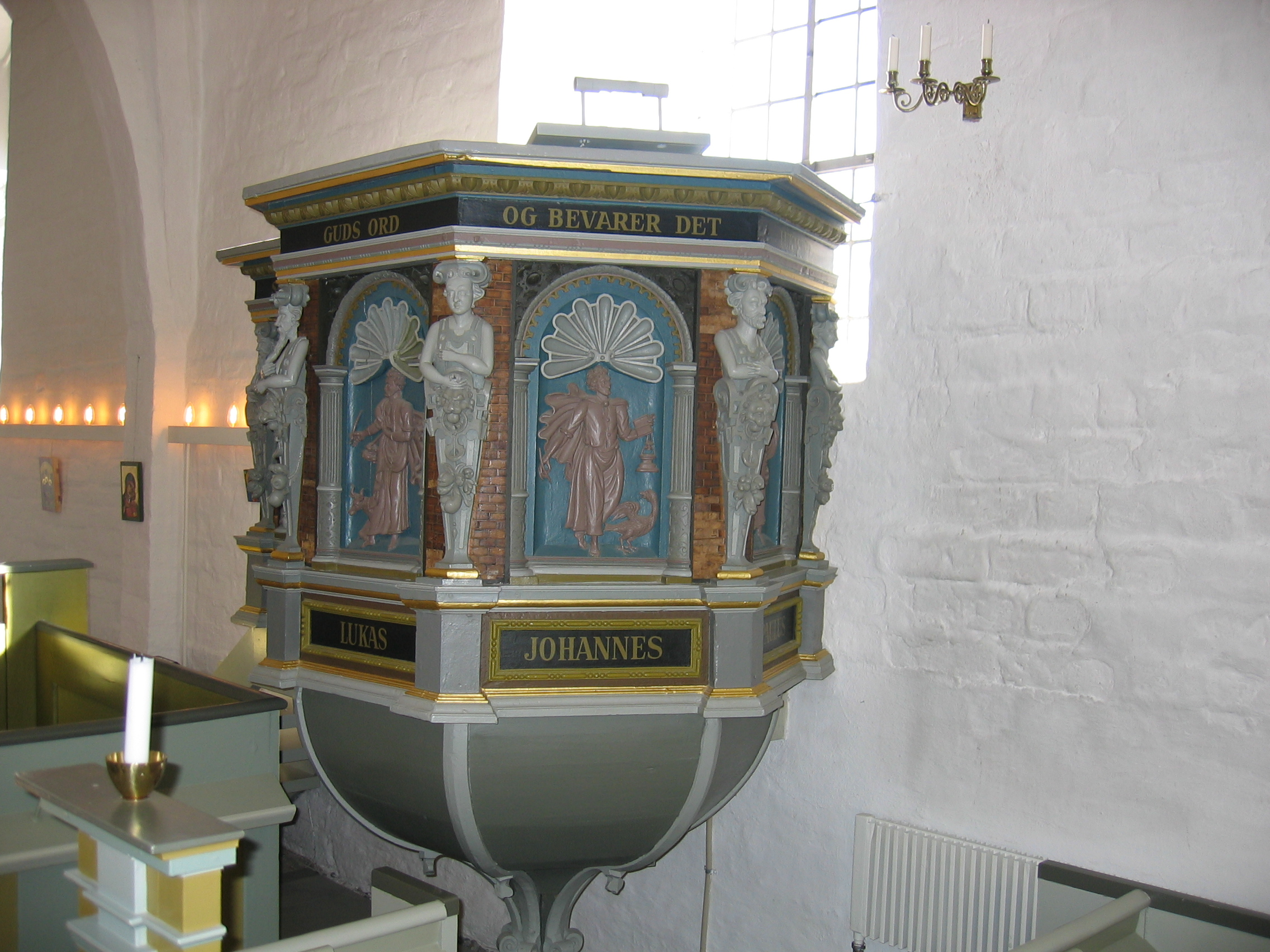 Vejby Church, Vejby parish, Holbo Herred, Frederiksborg County, Denmark.